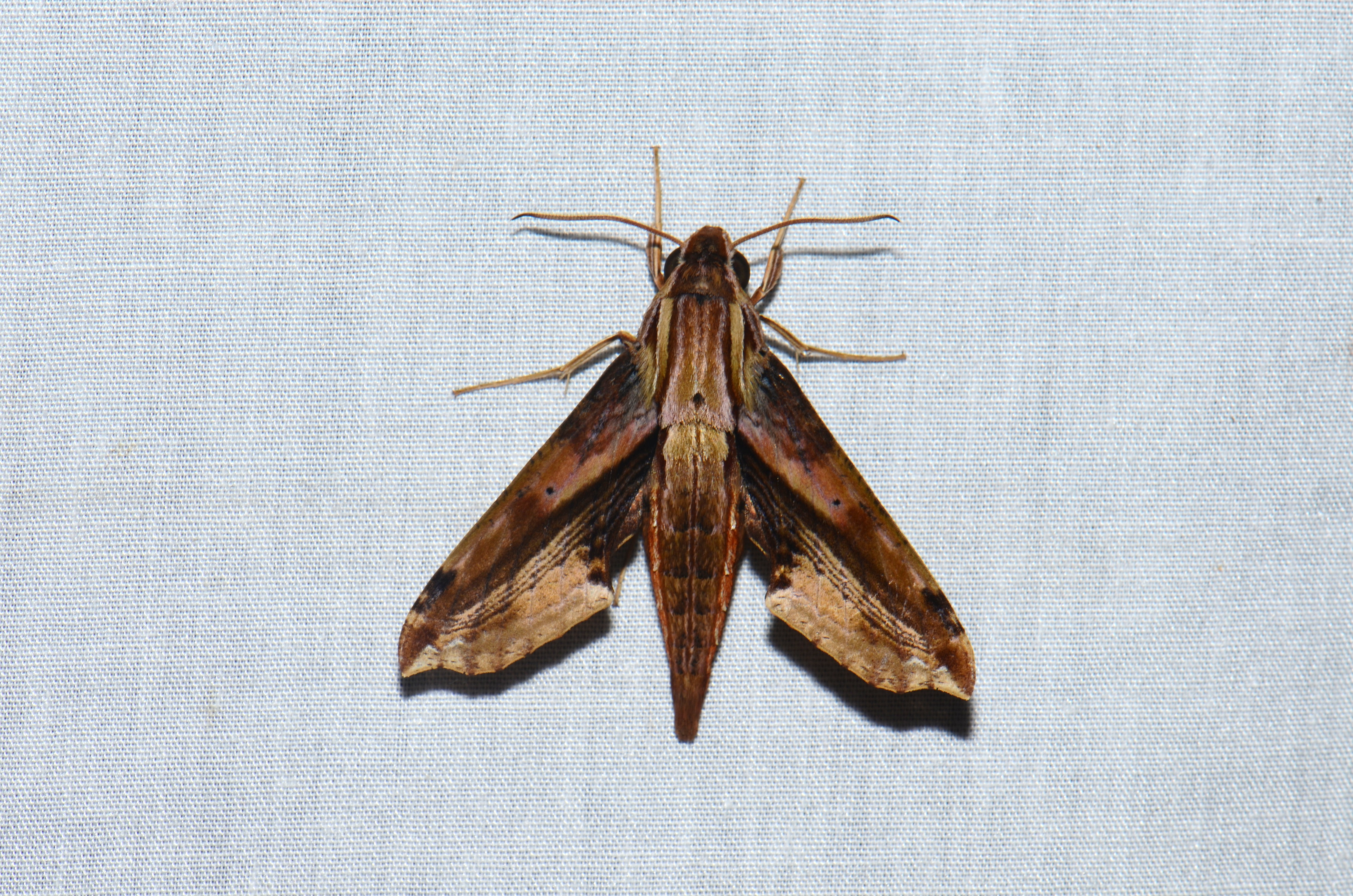 Thanks to Bernard Dupont for ID